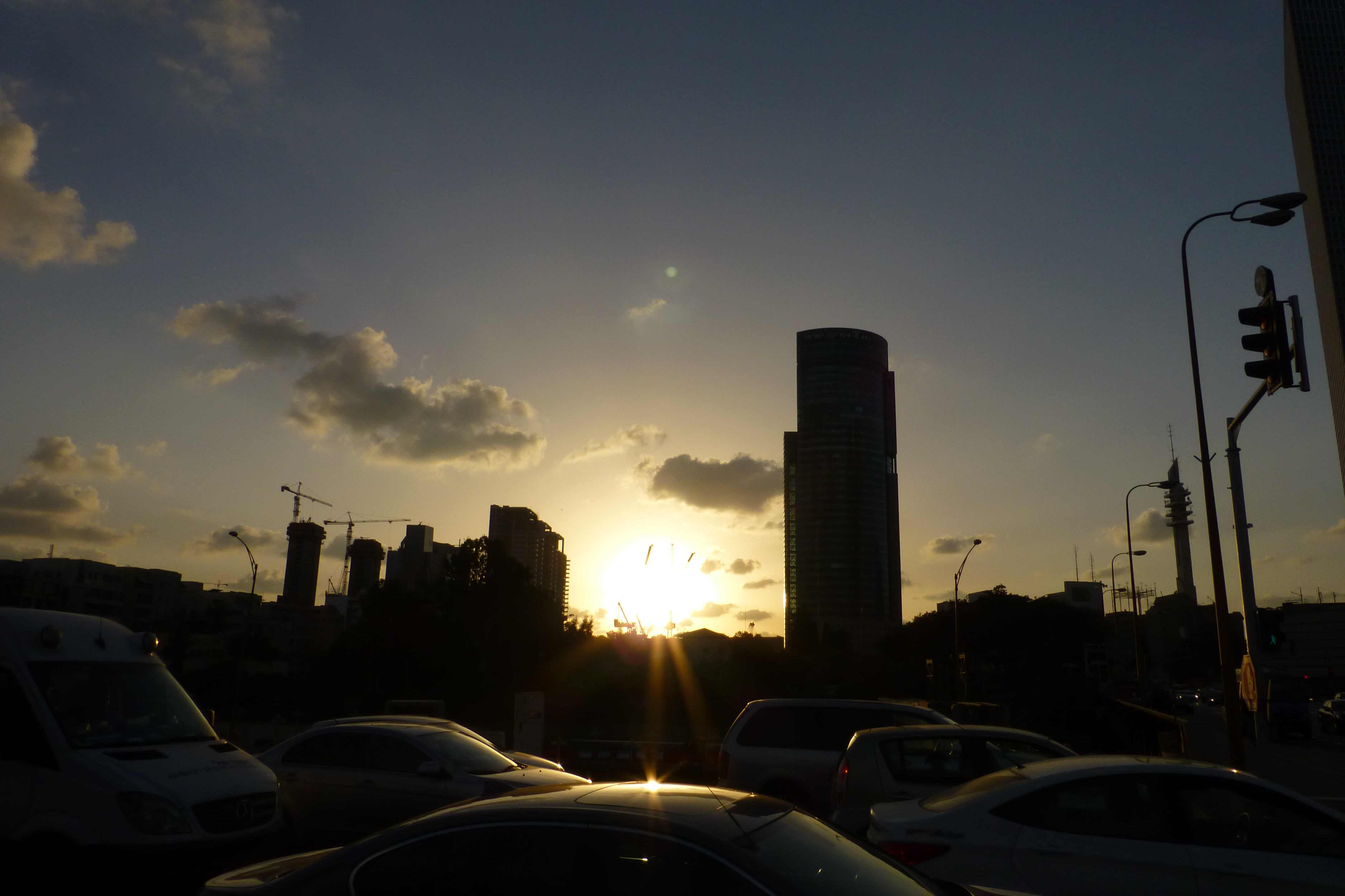 Hashalom interchange